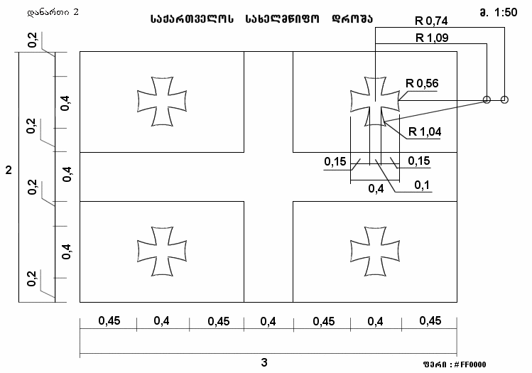 Construction sheet of the Flag of Georgia